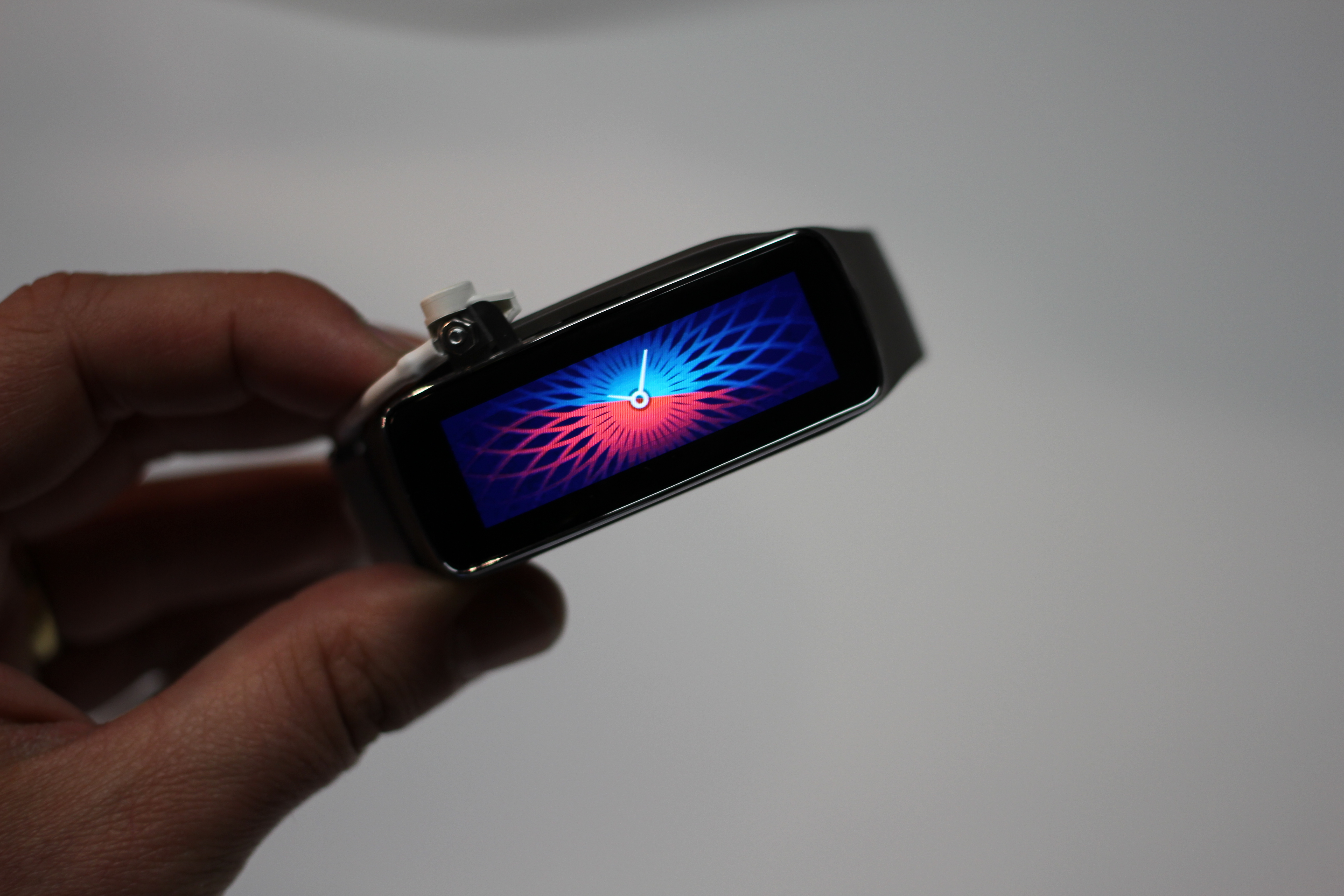 Holding a Samsung Gear Fit